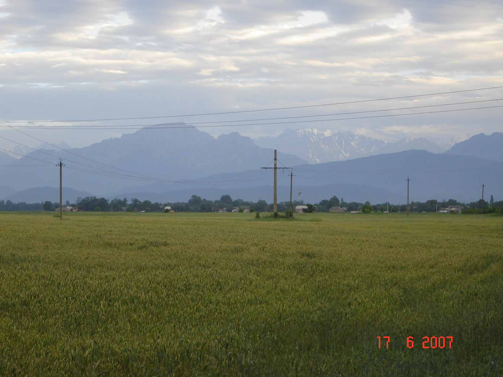 View of Arkhonskaya stanitsa and the Caucasus mountains from the fields.